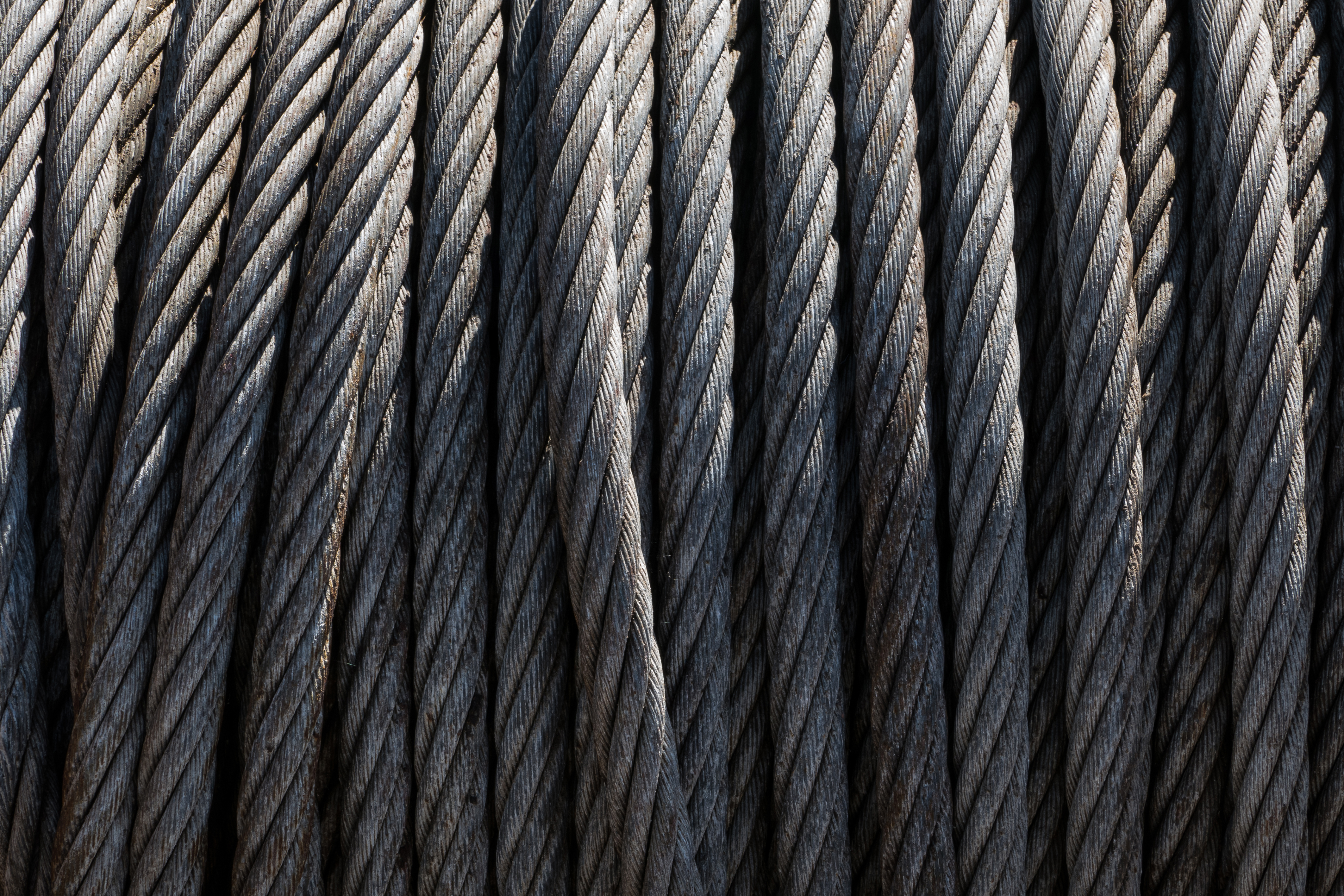 Steel wire rope on a winch drum formerly onboard a tugboat operating in Brofjorden, Lysekil Municipality, Sweden. The wire is about 2 cm (0.79 in) in diameter.